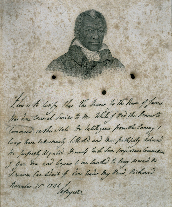 Engraving of James Armistead Lafayette, based on a portrait painted by John B. Martin, with a facsimile of the Marquis de Lafayette's certificate recording the service record of "James" on behalf of the Continental Army during the American Revolutionary War